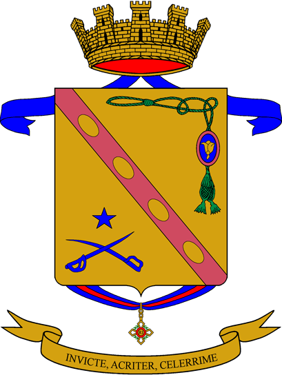 Coat of Arms of the 28° Bersaglieri Battalion; Italian Army.